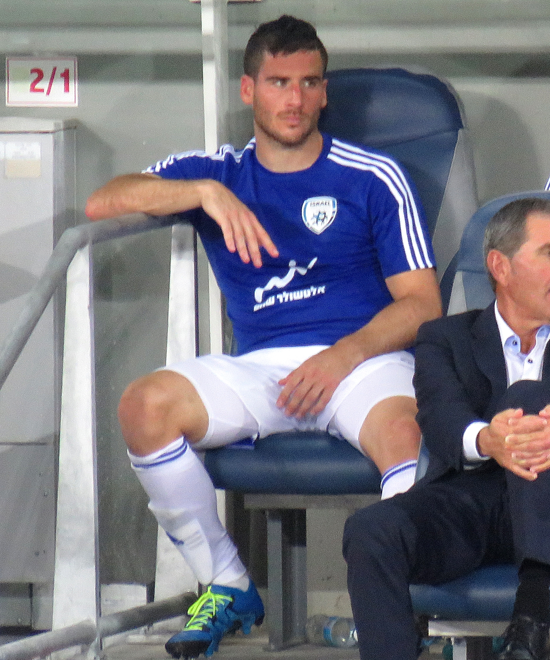 Israel vs. Andorra - September 3, 2015